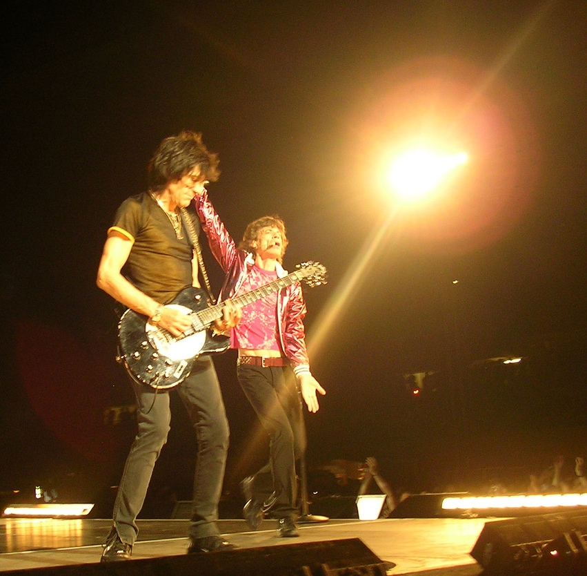 Photo of Ron Wood and Mick Jagger on stage during a Rolling Stones concert, July 15, 2006 in Vienna It's rough justice but you know I'll never break your heart...